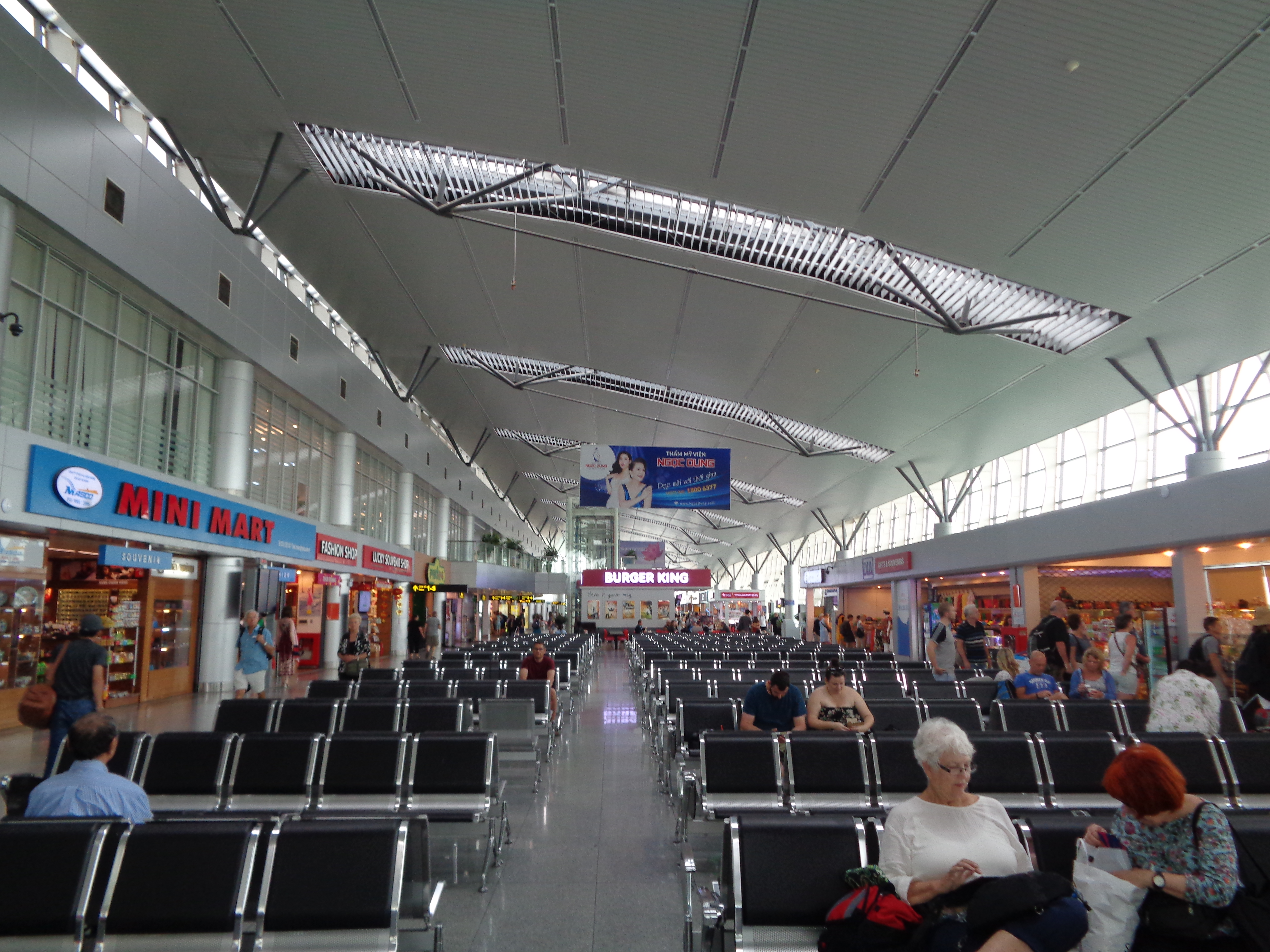 Inside the International Terminal of Da Nang Airport